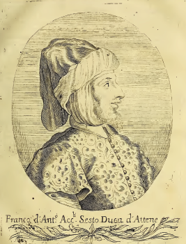 Francensco_II_Acciaiuoli Duchy of Athens